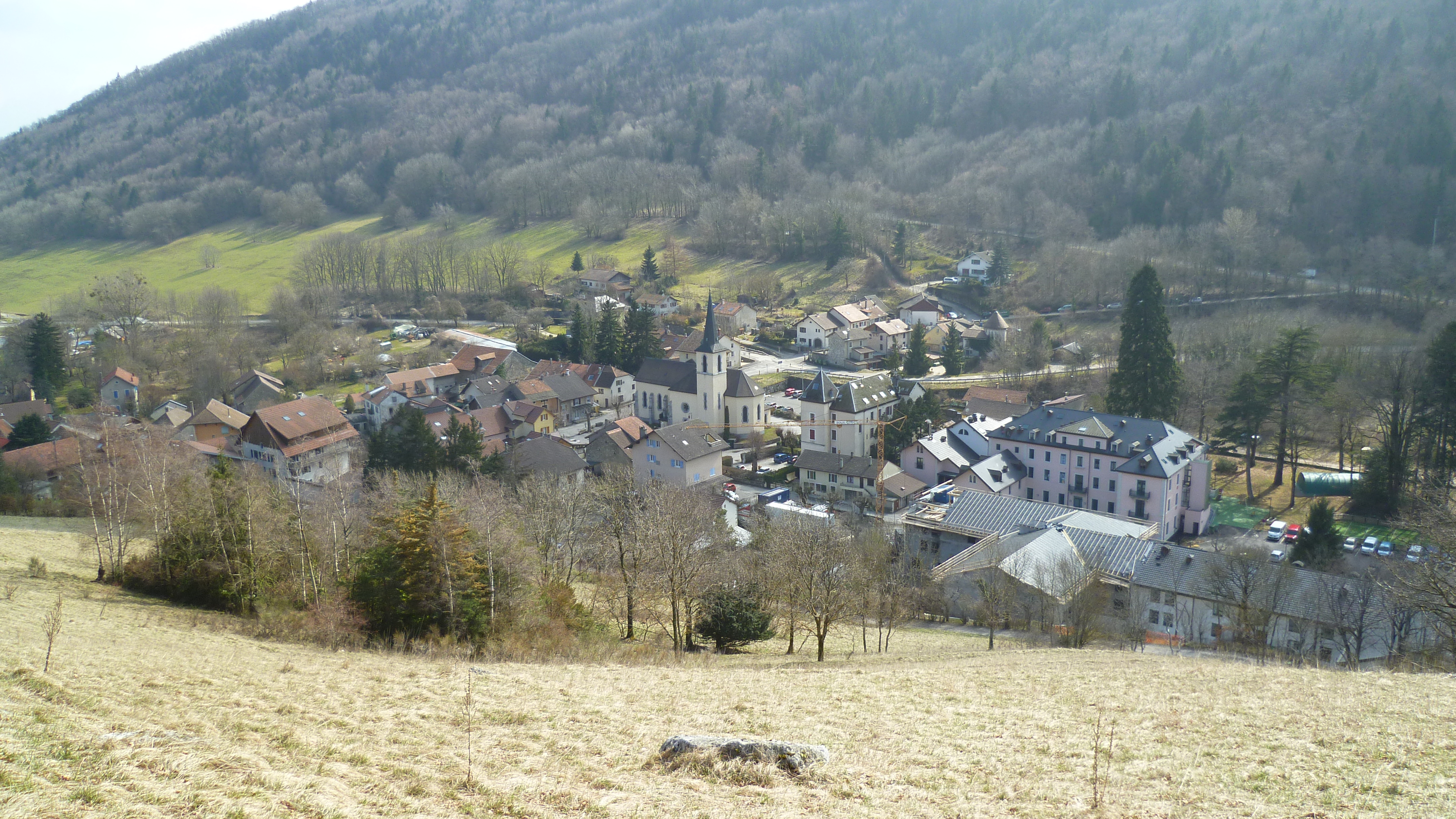 The Monnetier village in Monnetier-Mornex.